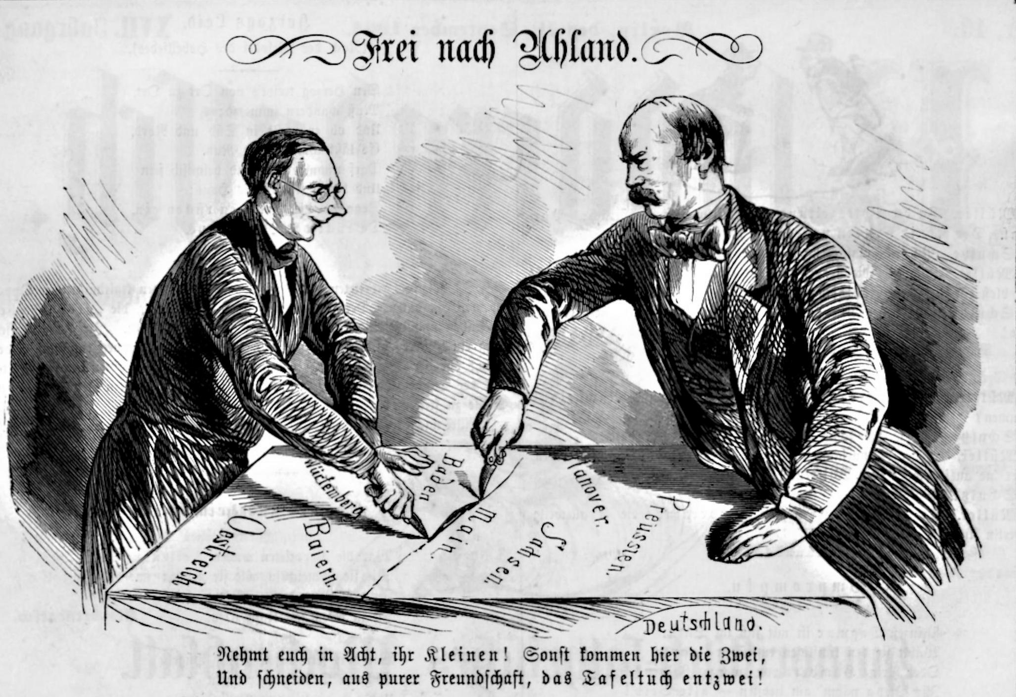 Karikatur, Kladderadatsch